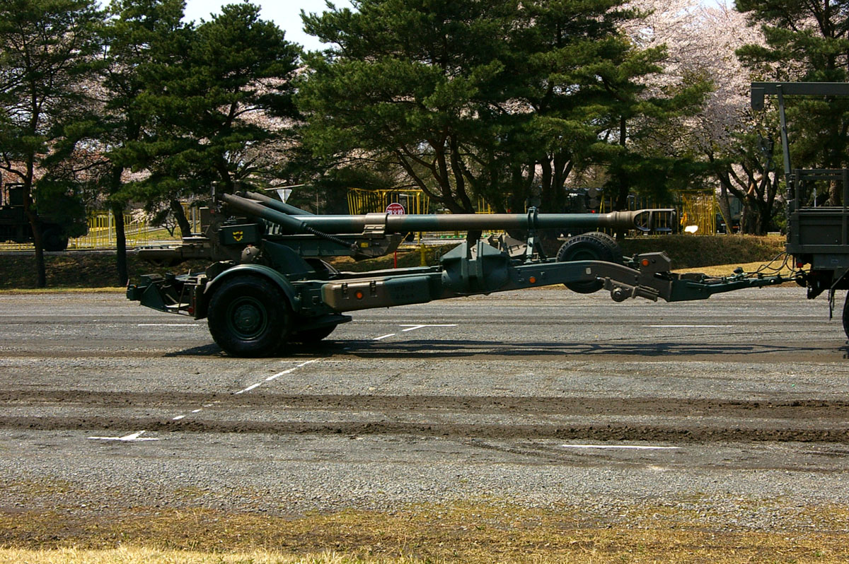 Taken by los688,8-Apr-2007,JGSDF Camp-Utsunomiya.JGSDF Howitzer FH70 (transport).PD-self. ja:2007年4月8日、投稿者撮影。陸上自衛隊宇都宮駐屯地創立57周年記念行事。FH70榴弾砲、第12特科隊。